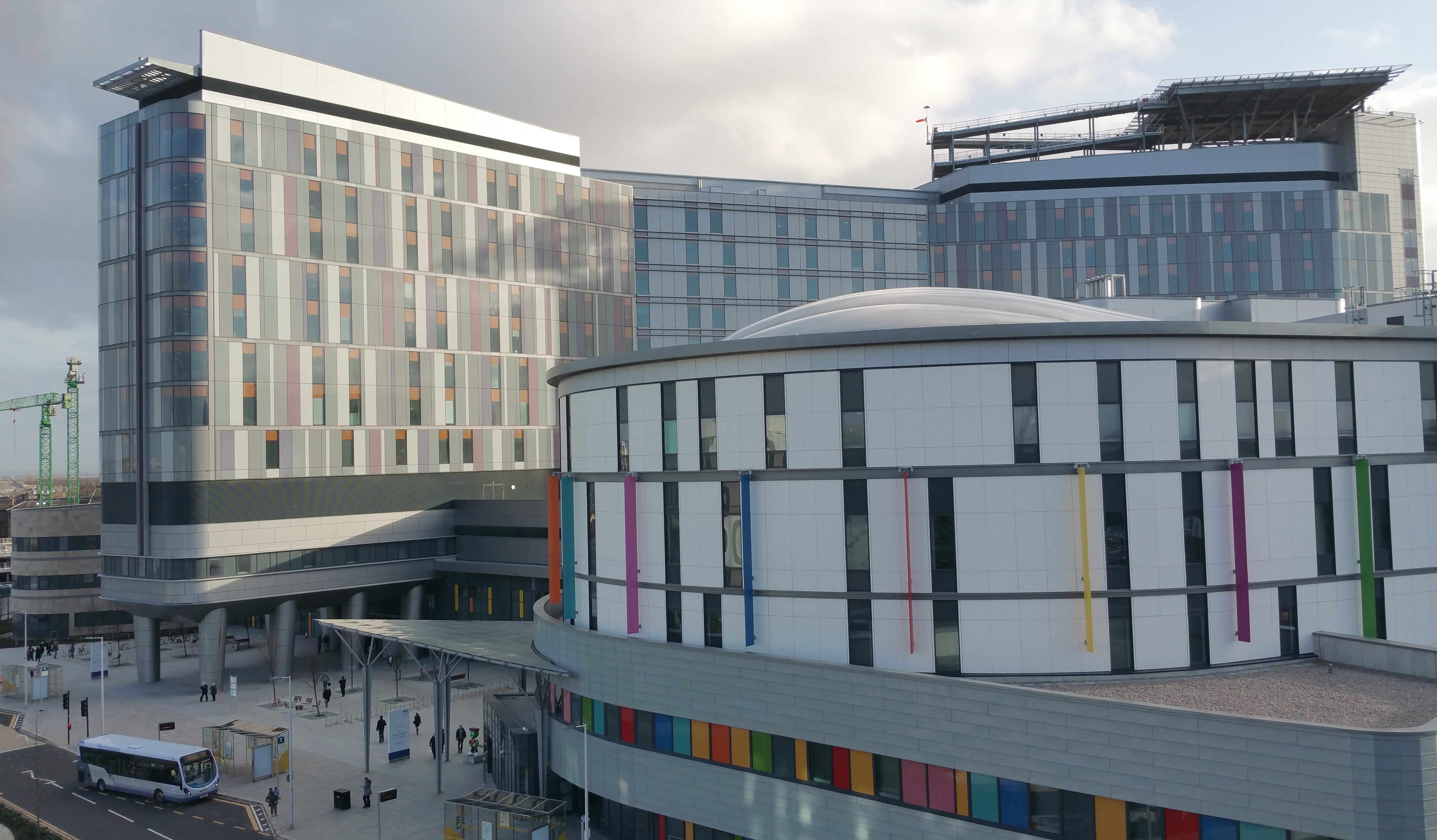 The Queen Elizabeth University Hospital with the adults and childrens facility in frame.